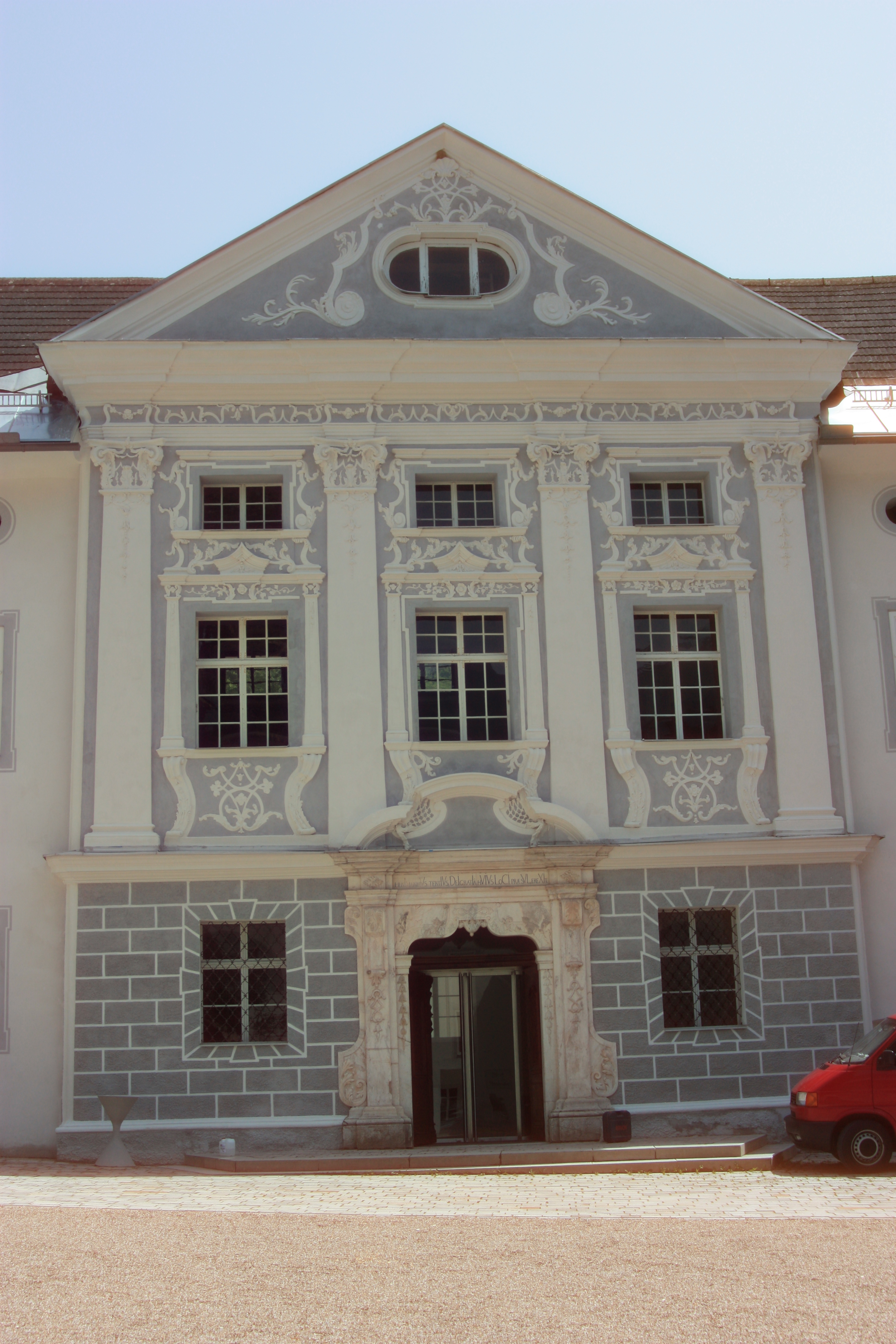 Monastery Ossiach - Middle-risalit Community:Ossiach District:Feldkirchen State:Carinthia Country:Austria